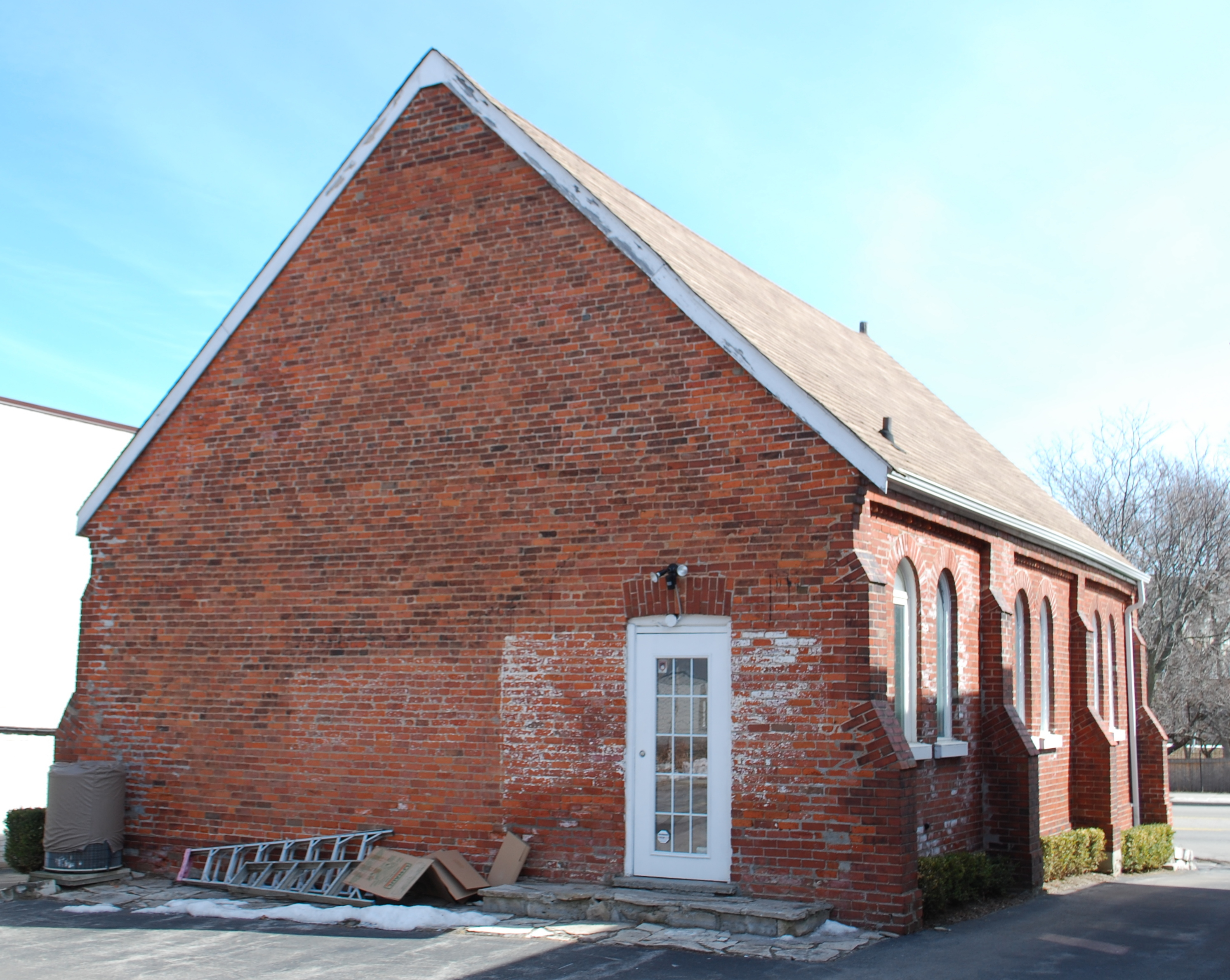 Exterior of Turner Chapel